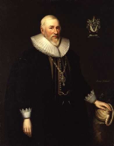 Sir Hugh Myddelton (1560-1631)